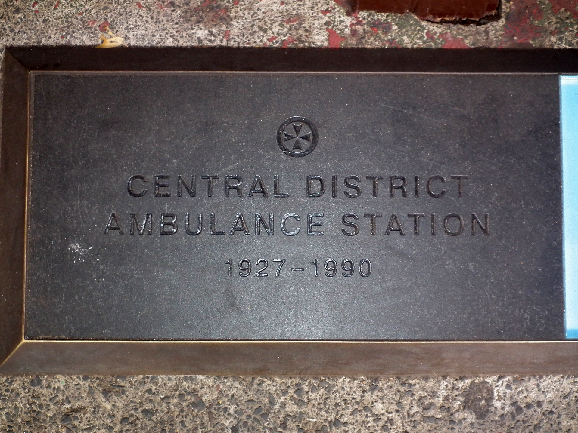 Ken Duncan Gallery - The Rocks NSW. This building has led a life of various uses. Originally built in 1842 as the King's Head Tavern, it became the Central District Ambulance station in 1927. It served as an ambulance station, as well as a the state ambulance training centre, until 1990. It is now the Ken Duncan Gallery, housing the works of photographer Ken Duncan. Located at 73 George St, The Rocks, NSW.